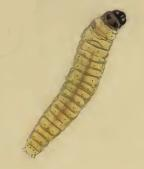 Stainton’s Natural History of the Tineina (1855–1873): Caryocolum proxima